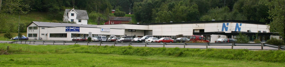 Bilde av Norheimsund Industrier